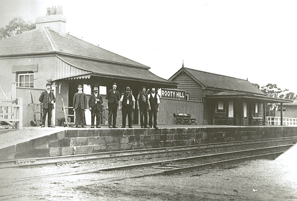 Rooty Hill Railway Station Dated: No date Digital ID: 17420_a014_a0140001201 Rights: We'd love to hear from you if you use our photos. Many other photos in our collection are available to view and browse on our website using Photo Investigator.